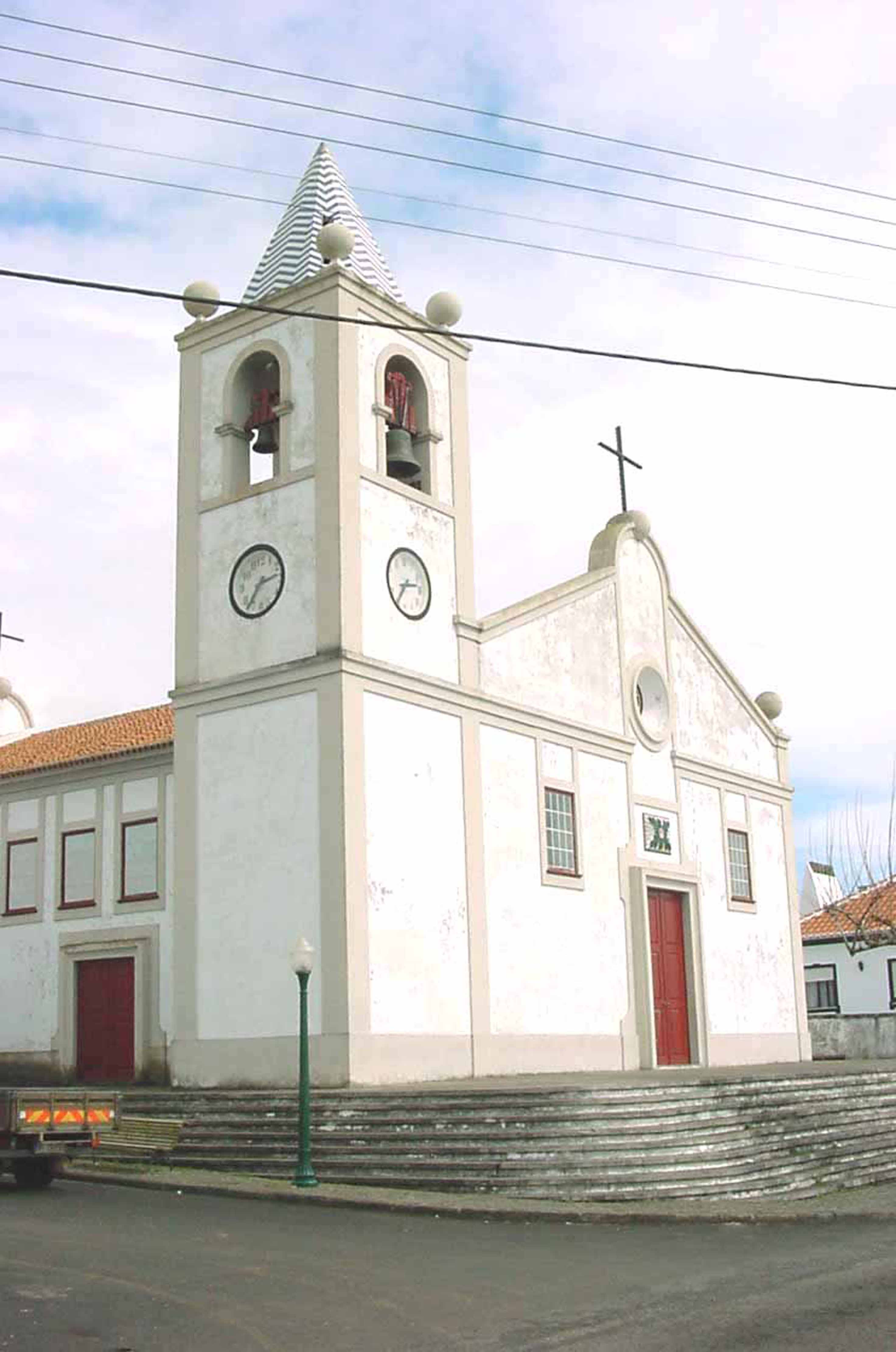 The Church of Nossa Senhora do Pilar, Cinco Ribeiras, Angra do Heroísmo, Terceira (Azores), Portugal